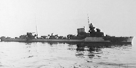 Starboard side view of the Italian destroyer Artigliere, stopped, abandoned and on fire forward after the Battle of Cape Passero. The Italian Navy had attempted to intercept an eastbund convoy from Malta on the night of 11/12 October 1940 with destroyers and torpedo boats which ran into the Royal Navy covering force which included the light cruiser HMS Ajax (22), the first radar-equipped RN ship in the Mediterranean Sea. Ajax stopped Artigliere, which surrendered and was scuttled on the next day by the heavy cruiser HMS York (90).